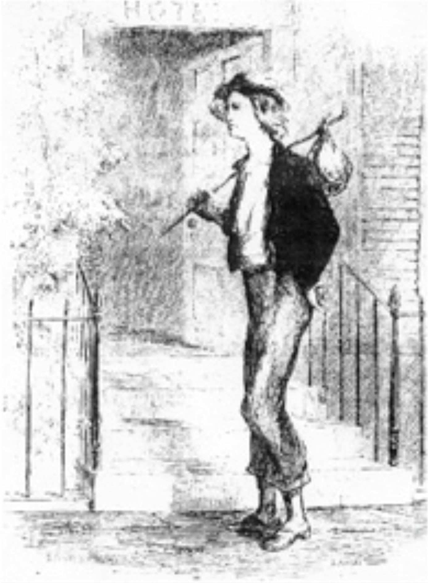 Artist's sketch of Horace Greeley arriving in New York, 1831